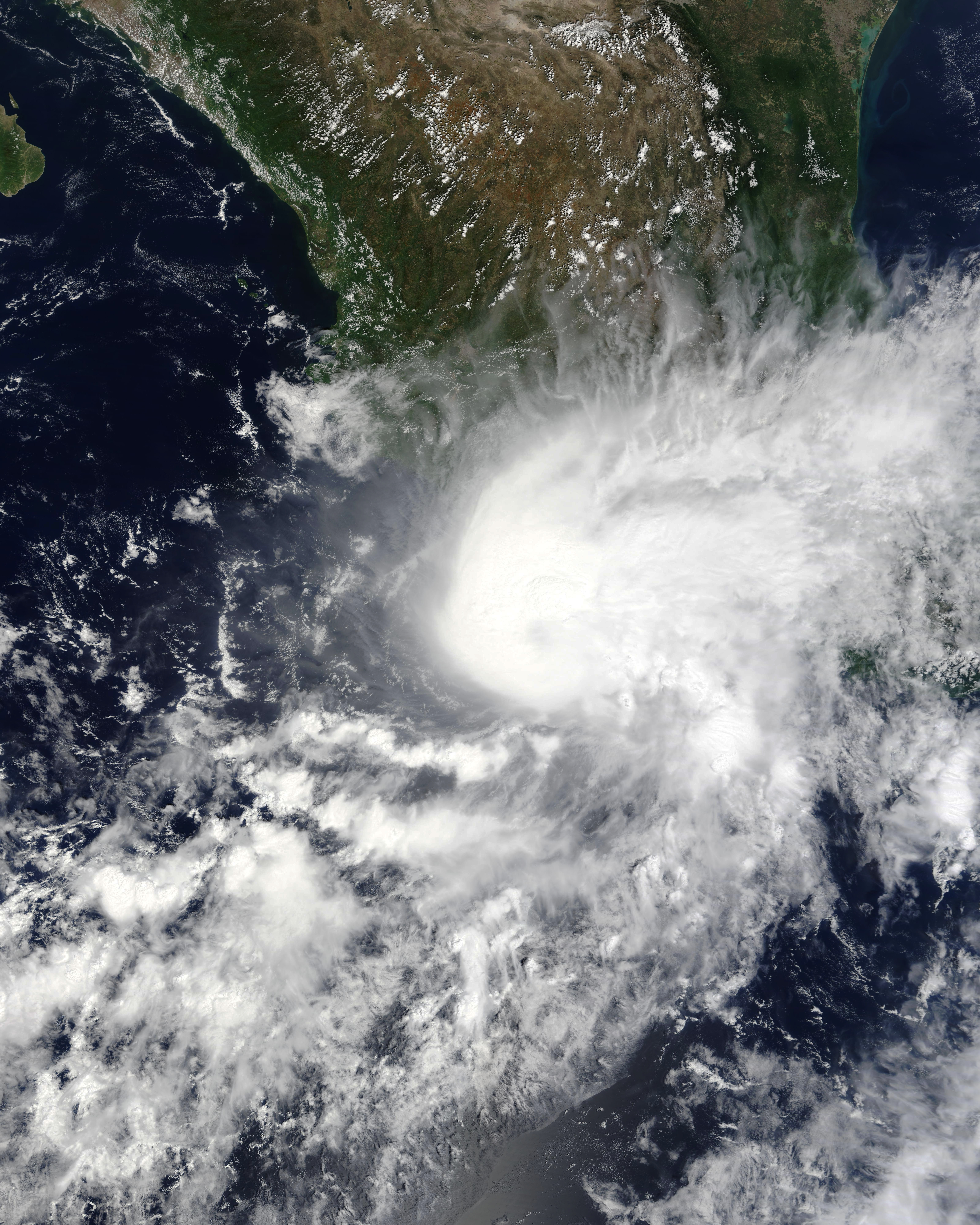 Hurricane Marty (17E) over Mexico